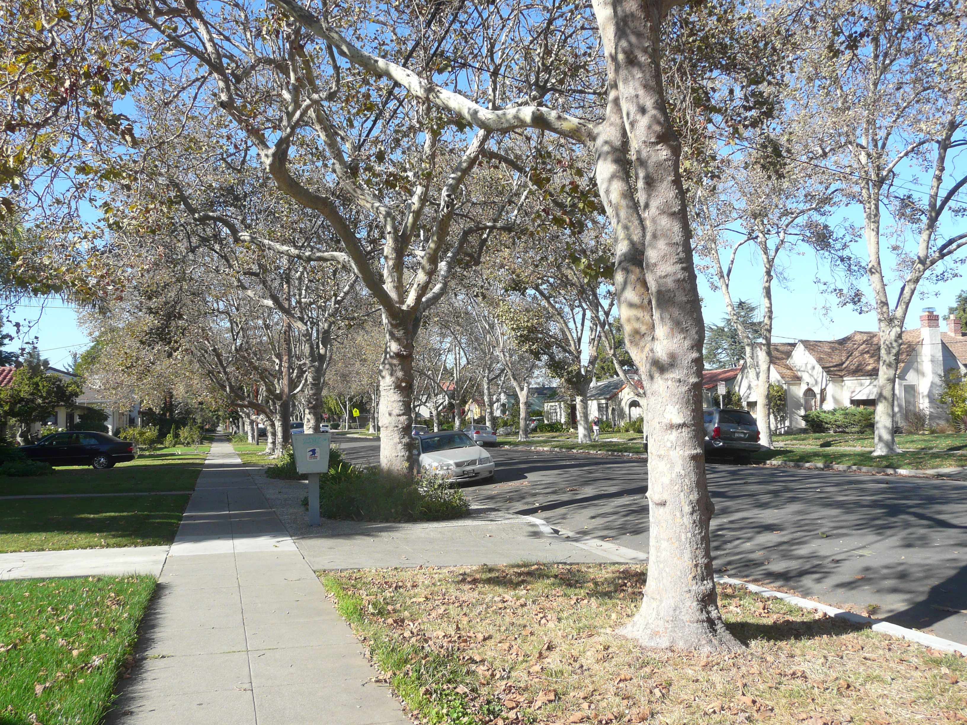 Second street in San Jose.